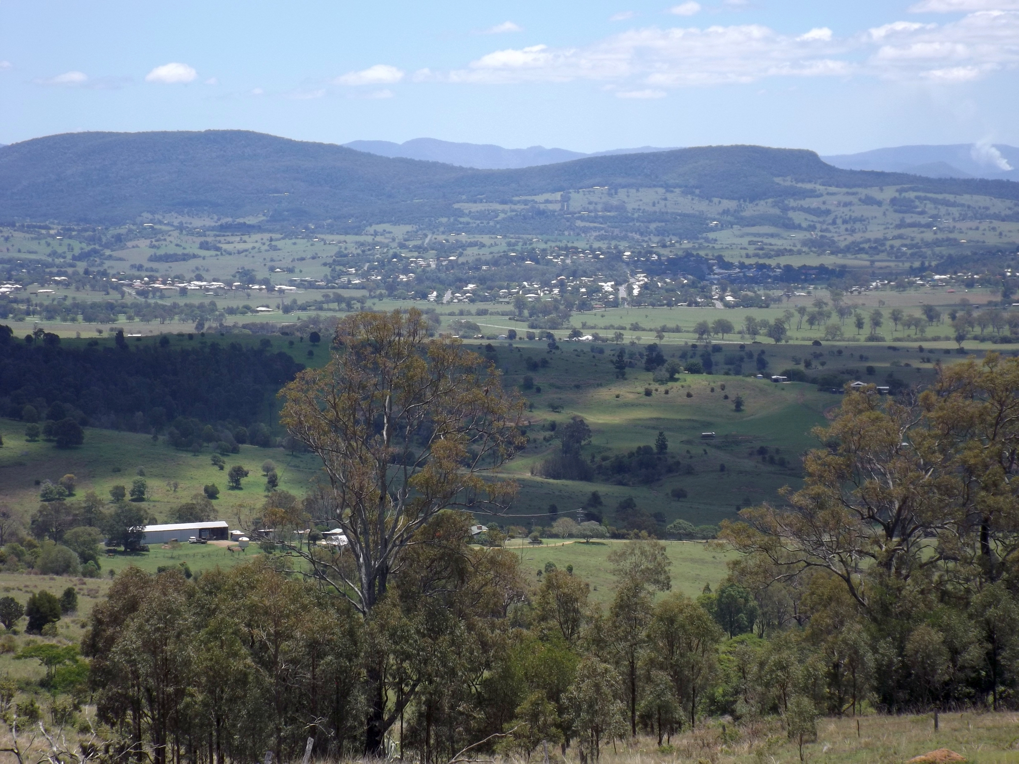 Photo of the township of Boonah from Allandale, Scenic Rim Region, Queensland, Australia.